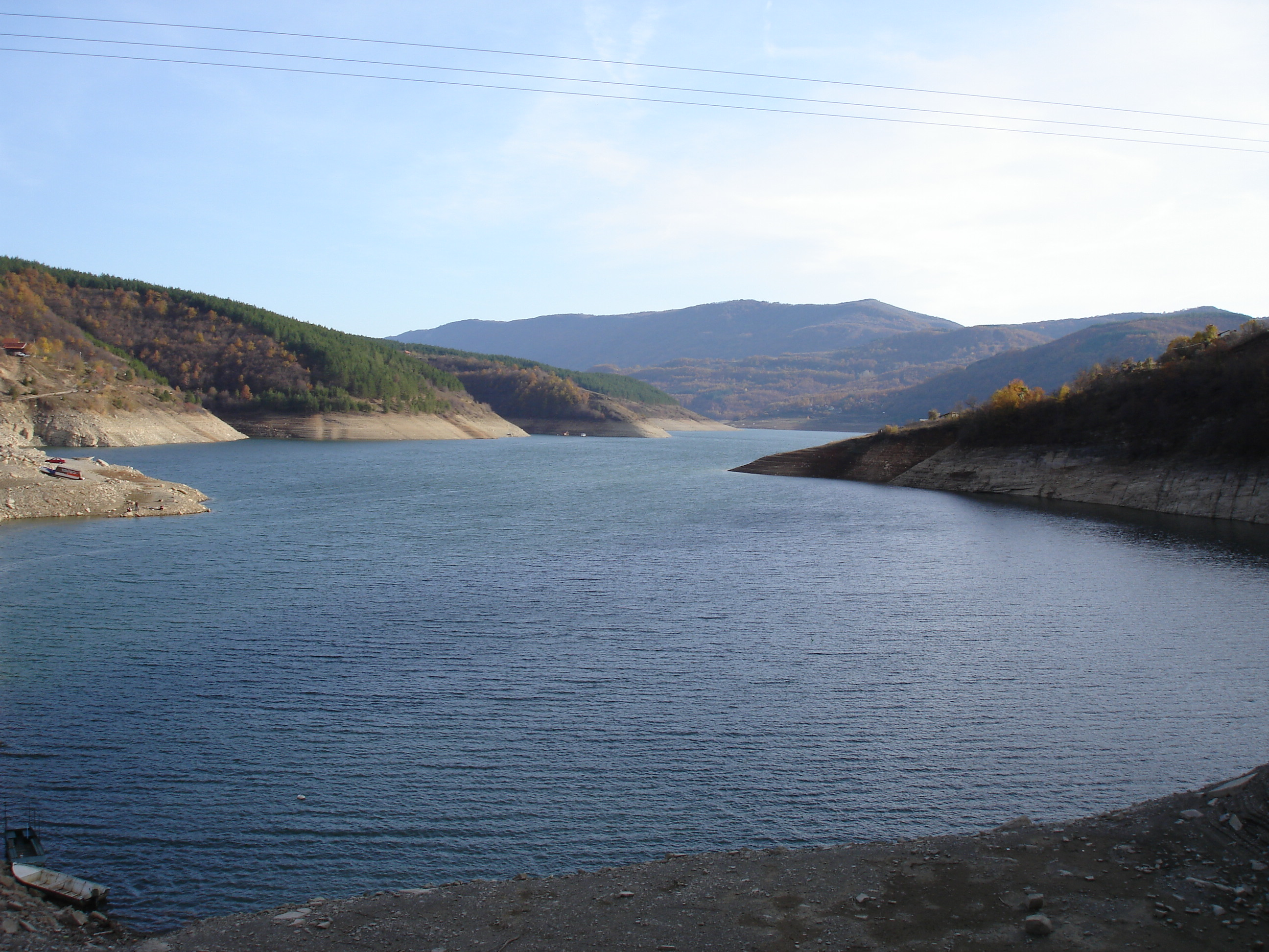 Lake Zavoj near Pirot, November 2012